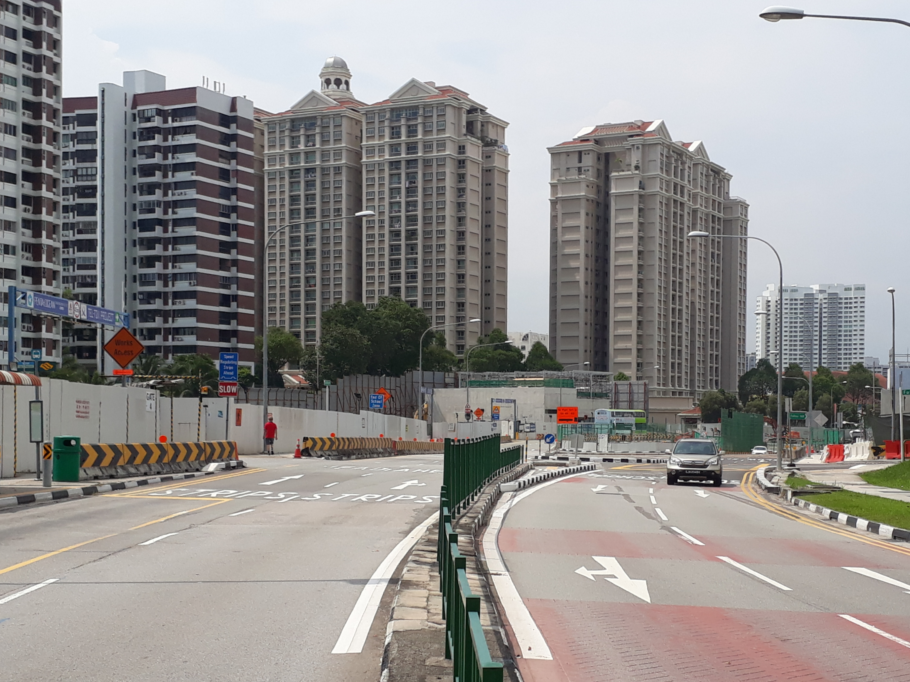 Bright Hill Under Construction